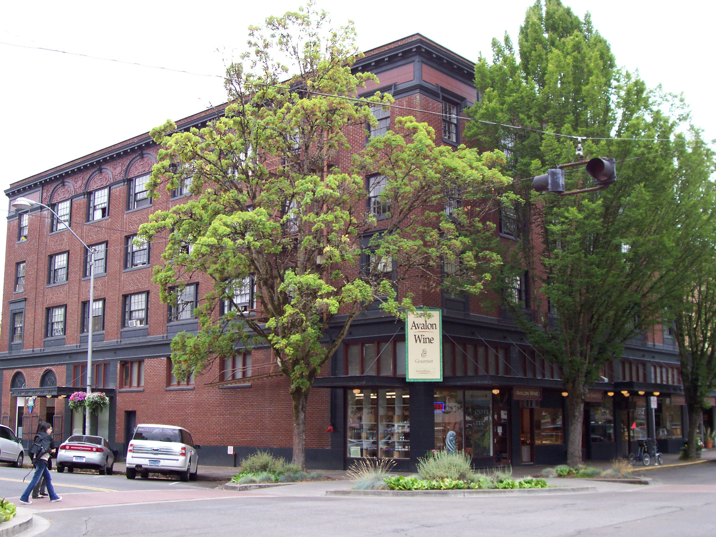 Corvallis Hotel building. Listed in the National Register of Historic Places.